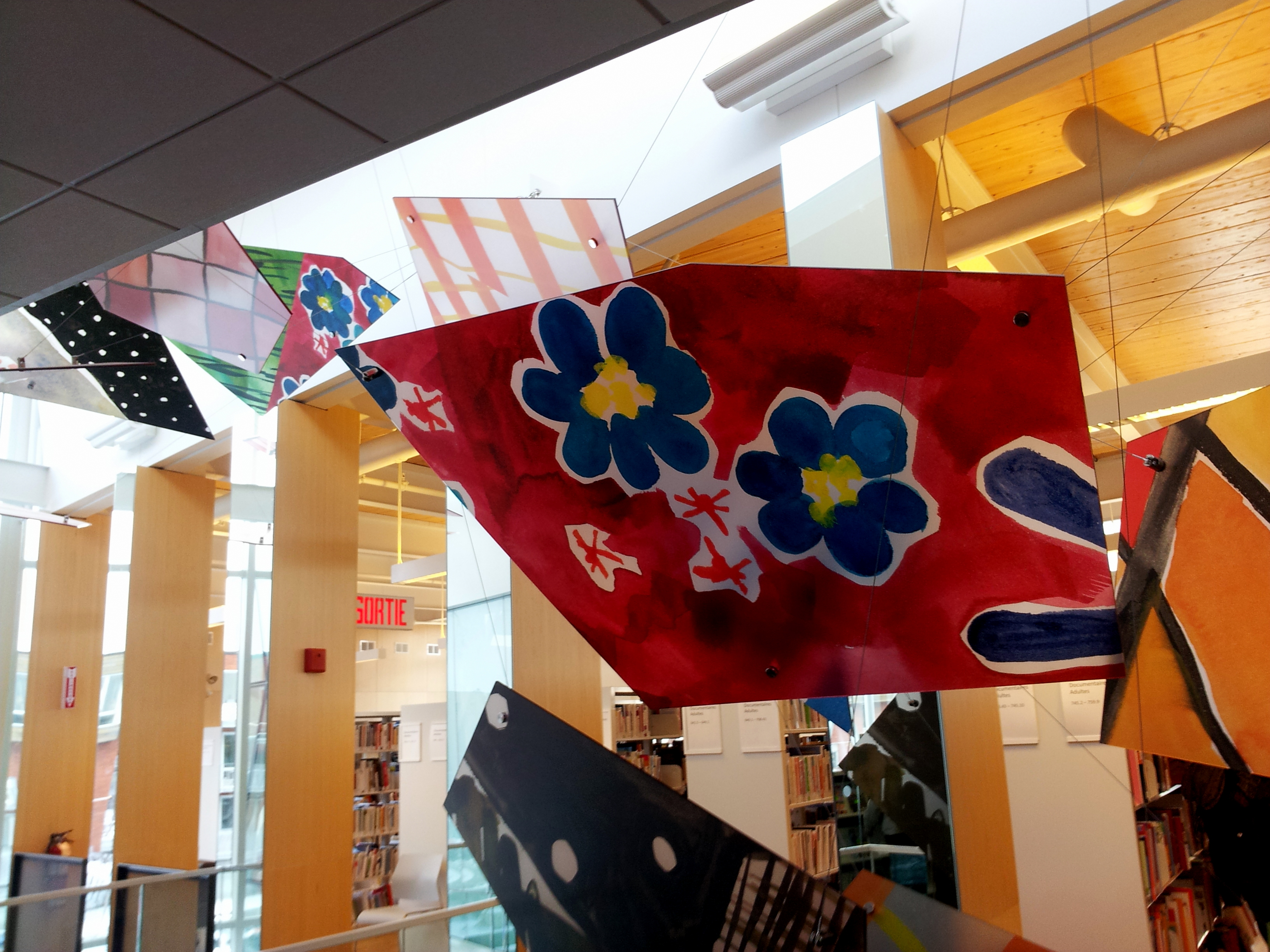 Constellation en sol, Adad Hannah, Marc-Favreau Library, Montreal